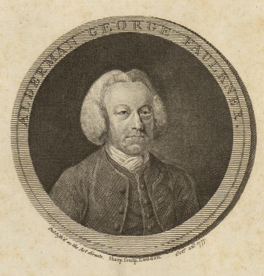 A portrait from the Welsh Portrait Collection at the National Library of Wales. Depicted person: George Faulkner – Irish publisher and bookseller